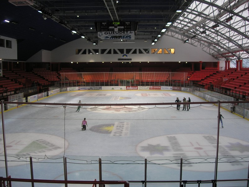 The rinks of Amiens Gothic